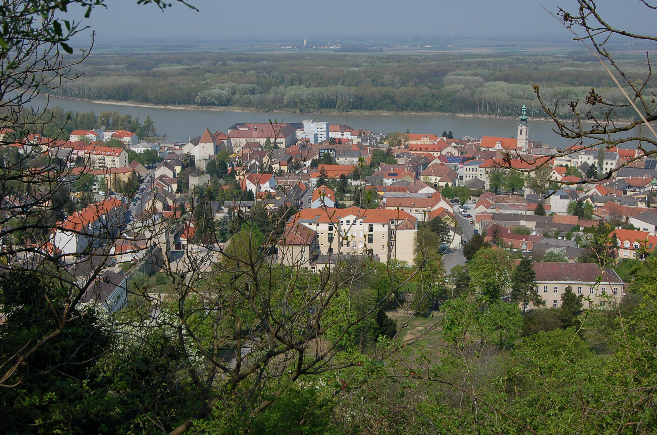 Hainburg an der Donau, Lower Austria; View from Schlossberg